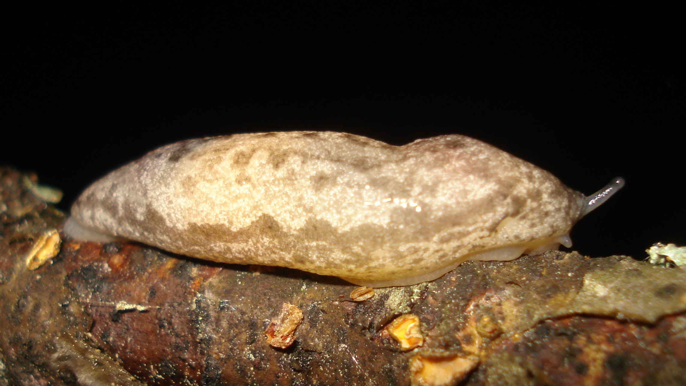 photo of Megapallifera mutabilis. Found feeding on lichens on broken branch under an oak tree.